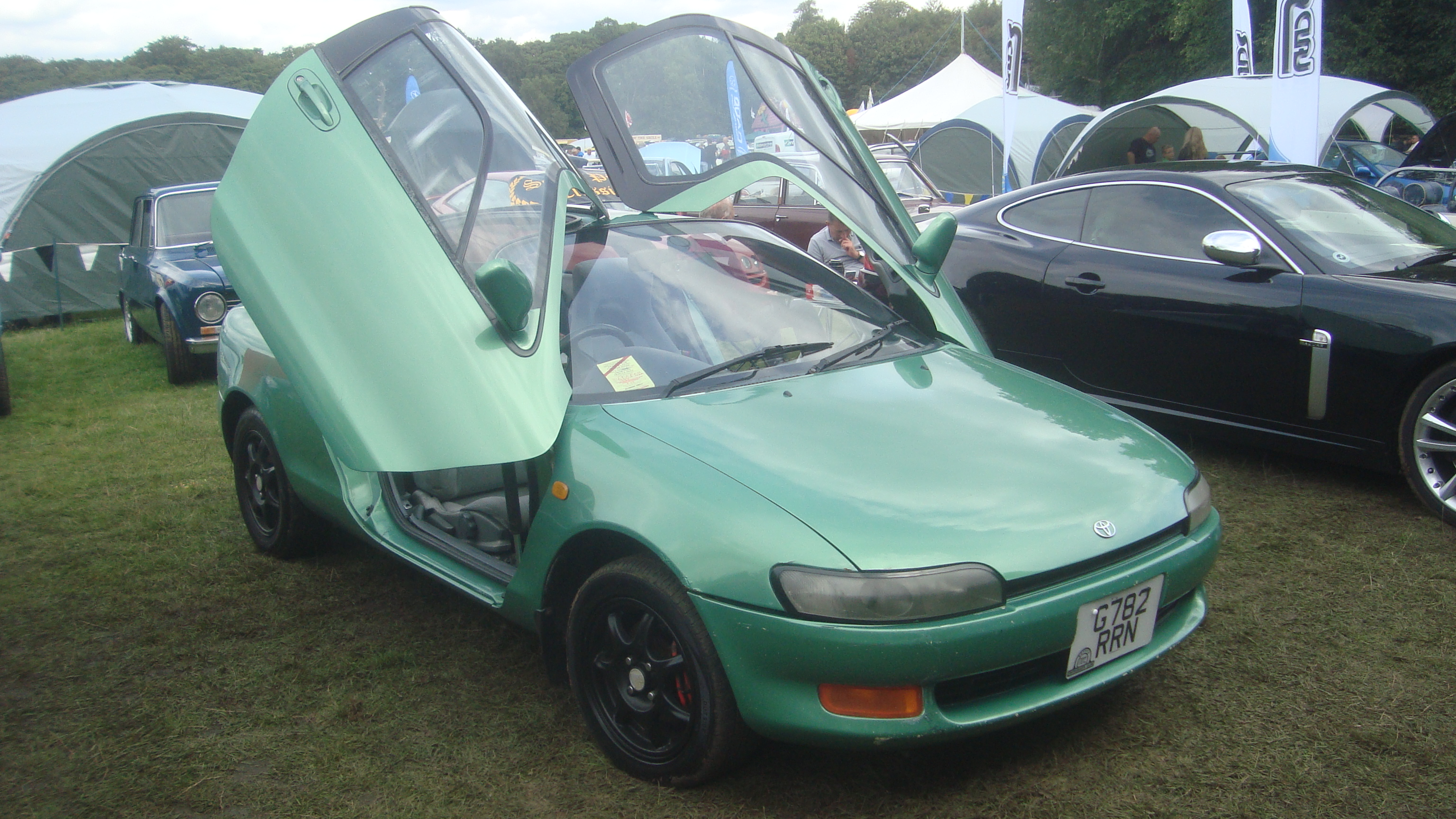 Taken at the Tatton Park 'Passion For Power 2017